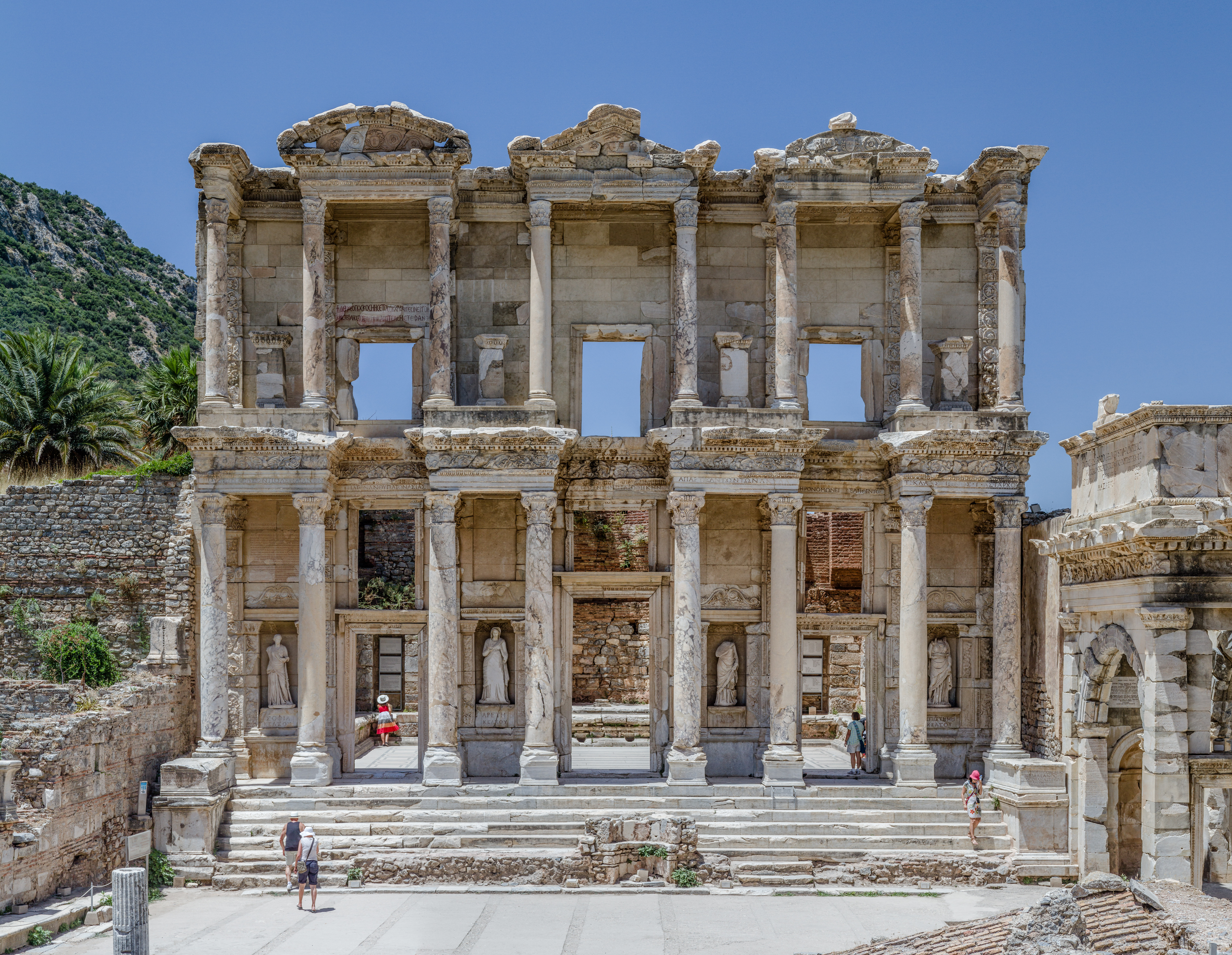 Façade of the Celsus library, in Ephesus, near Selçuk, west Turkey.